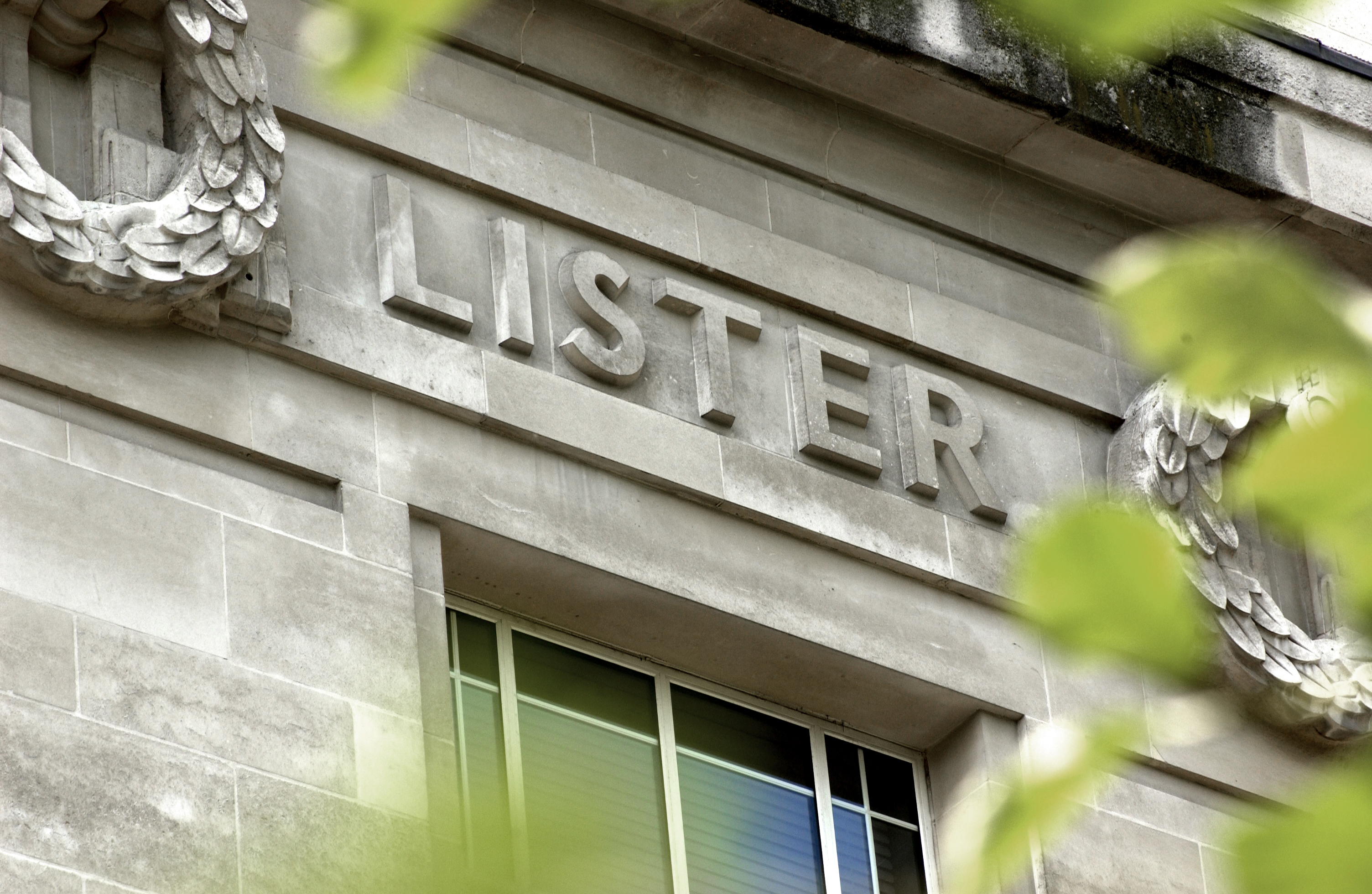 Image of Lister's name of the LSHTM's Frieze